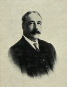 Sir Arthur Henderson Young as Governor of the Straits Settlements